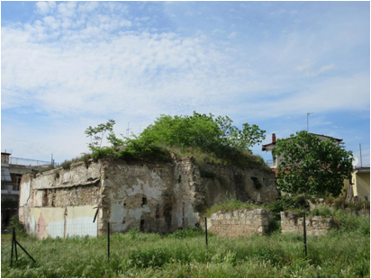 Gazi Evrenos bey hammam Giannitsa